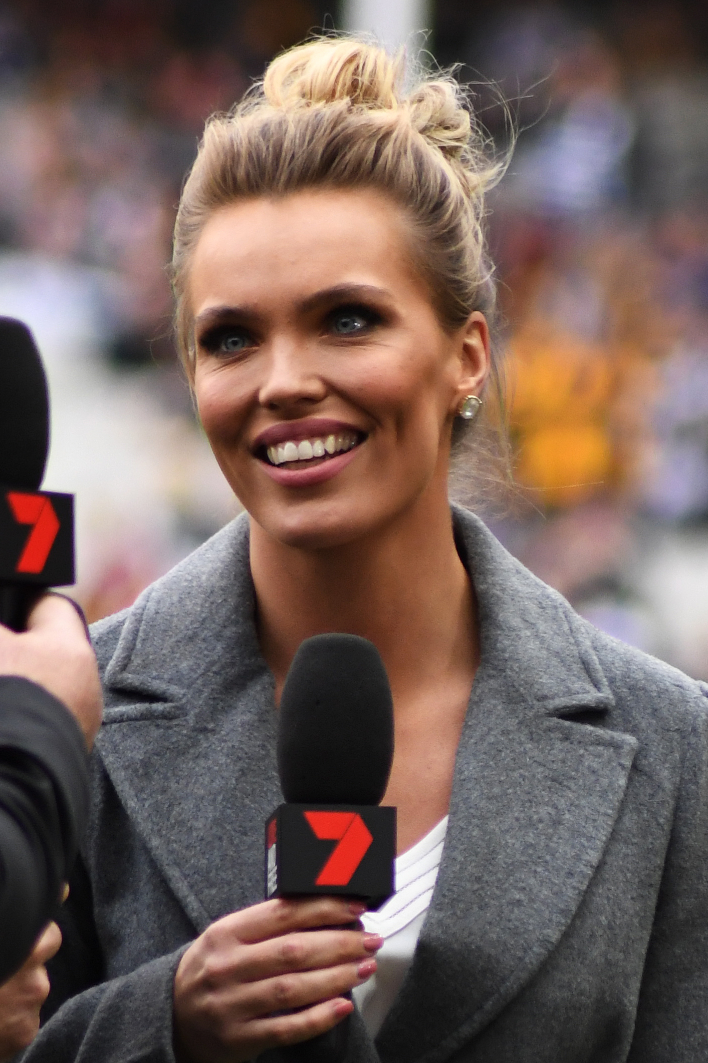 Abbey Holmes during the 2019 AFL round 5 match between Hawthorn and Geelong at the Melbourne Cricket Ground on Monday, 22 April 2019 in Melbourne, Victoria.